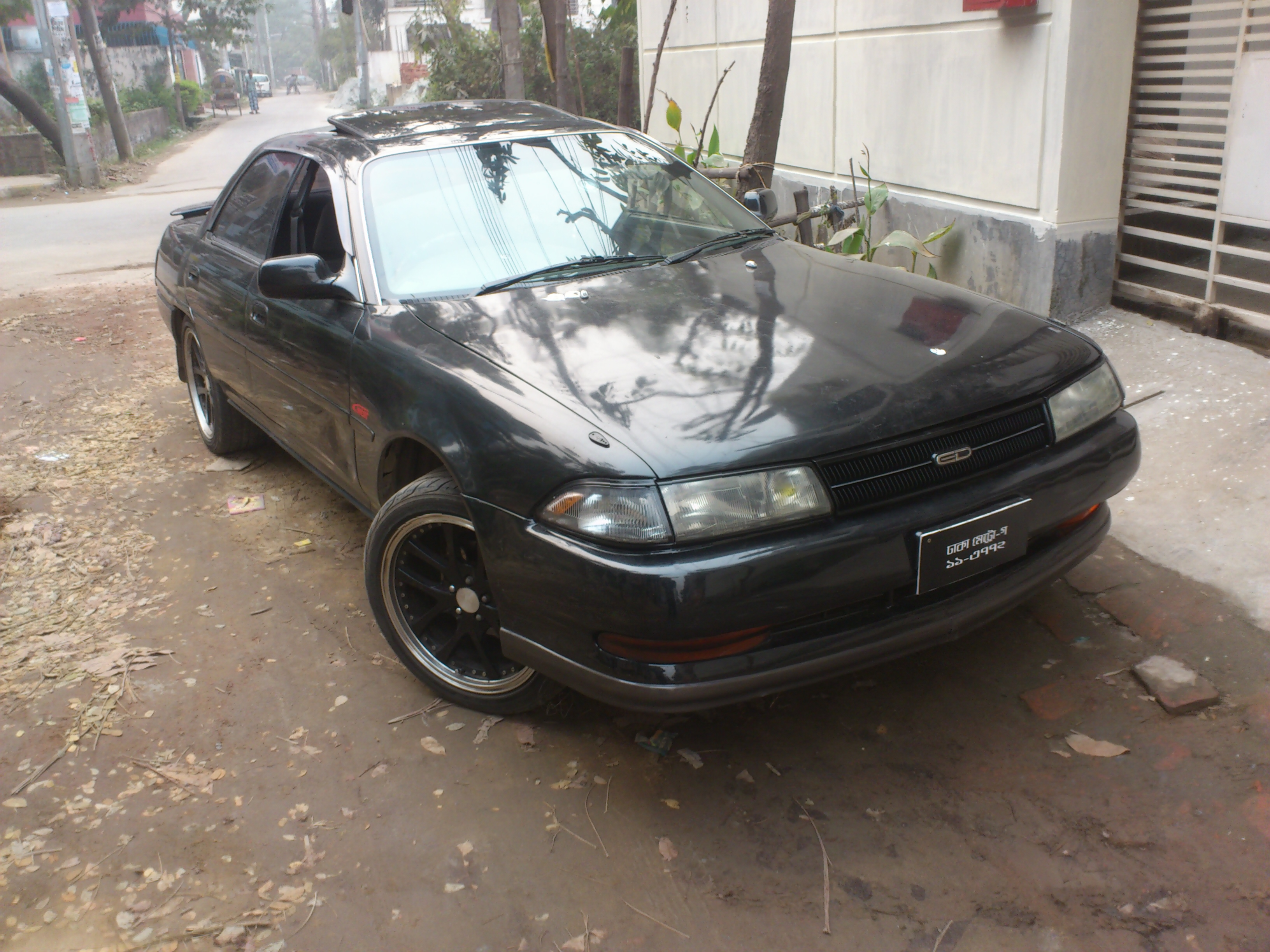 Equipped with 3SGE 3rd Generation